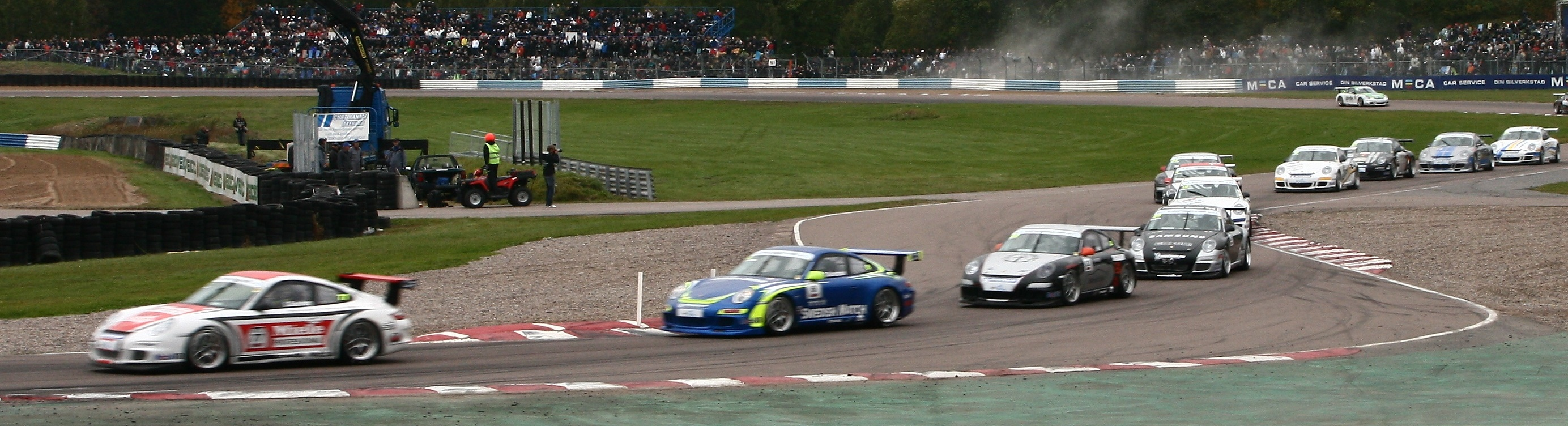 Porsche race at Mantorp Park in Sweden.